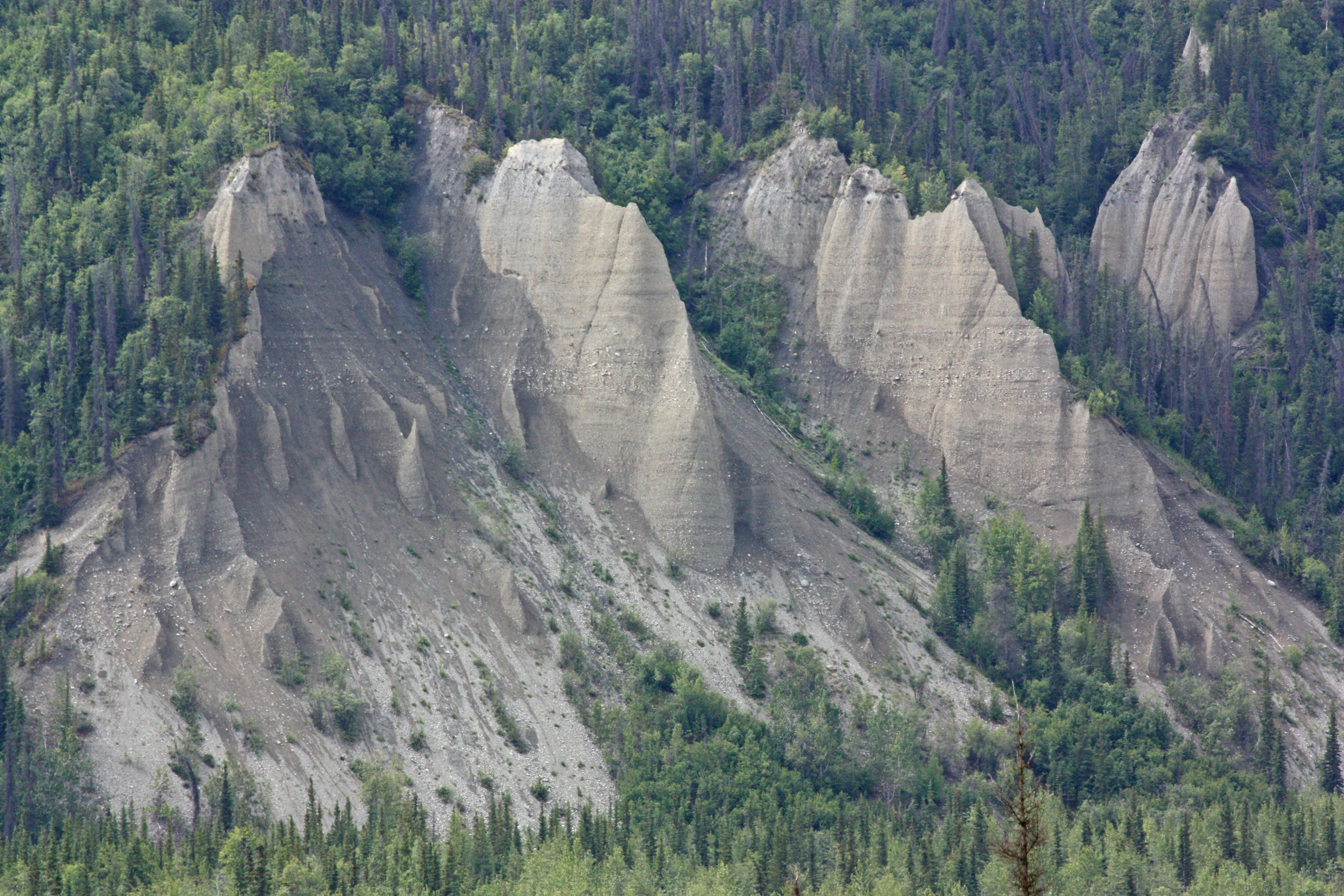 Matanuska River Valley; eroded alluvium